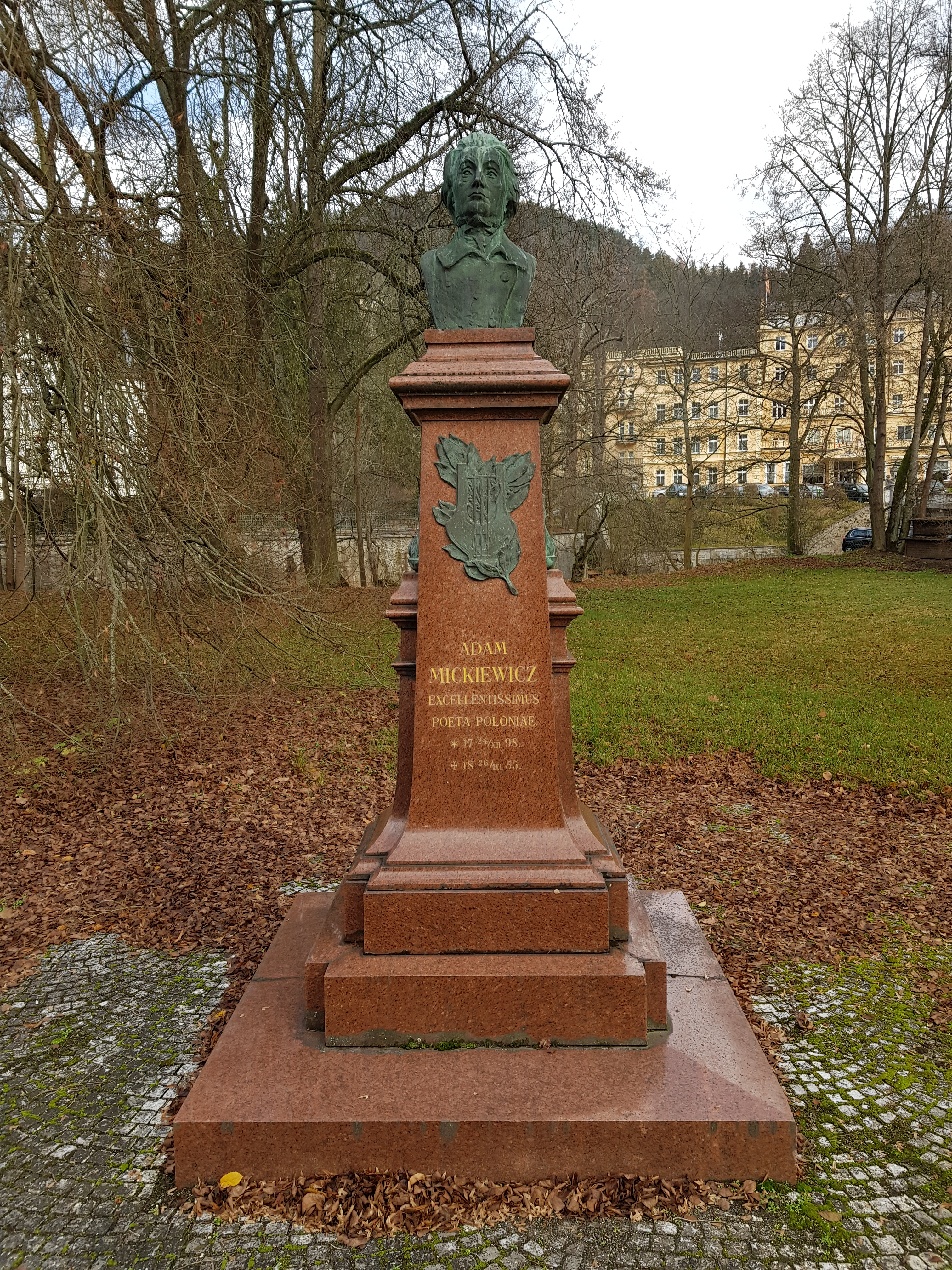 Memorial to Adam Mickiewicz in Karlovy Vary